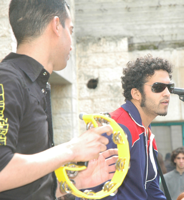 HaDorbanim performance. Guy Mezig on the background